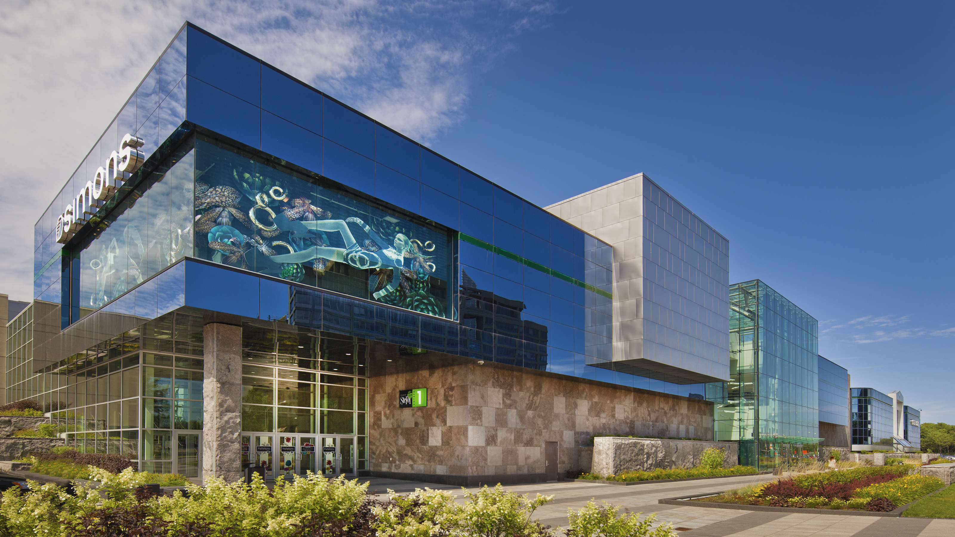 Ivanhoé Cambridge - Shopping Centre - Place Ste-Foy, Quebec City.